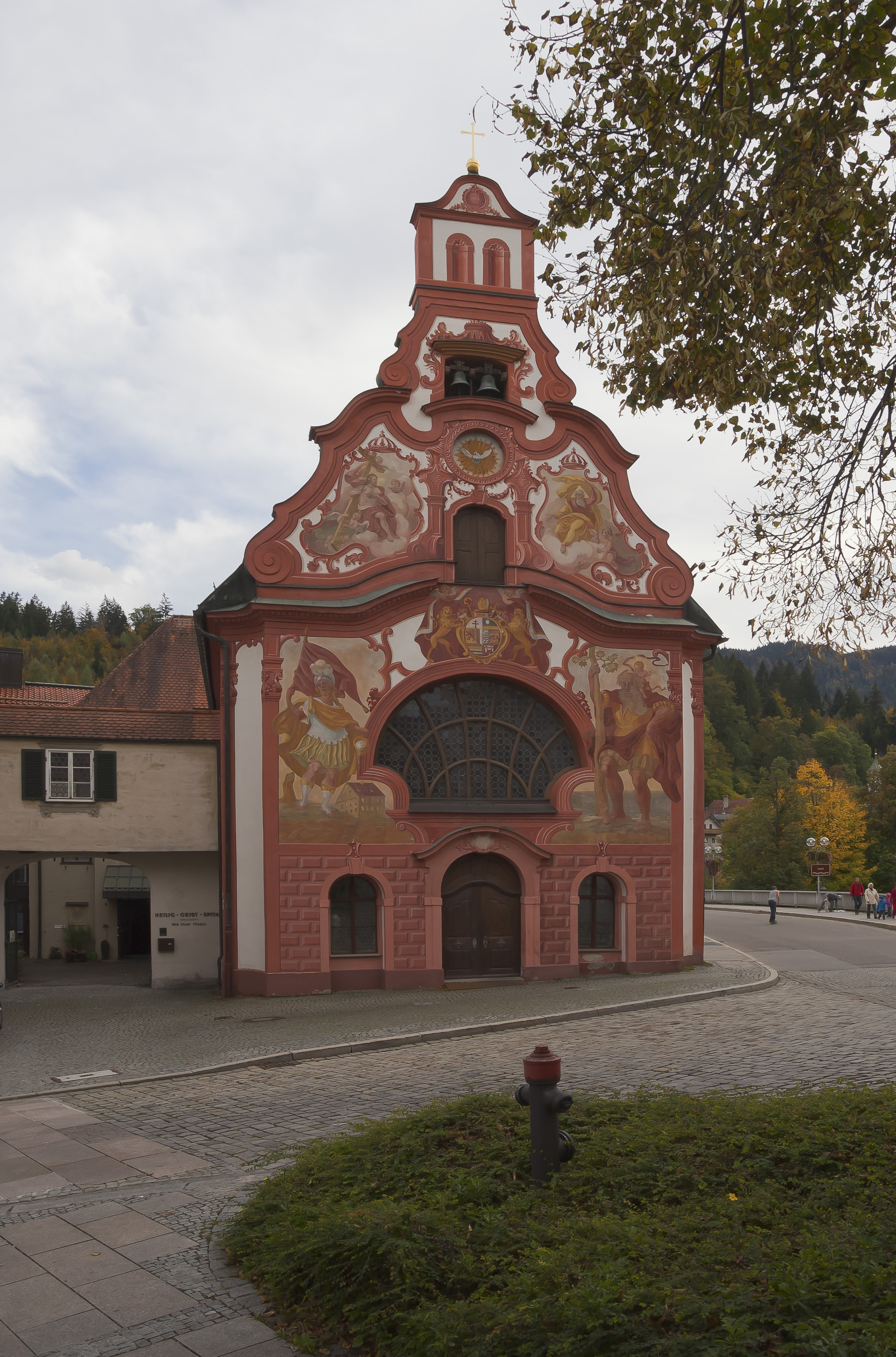 Hospital of the Holy Spirit, Füssen, Germany